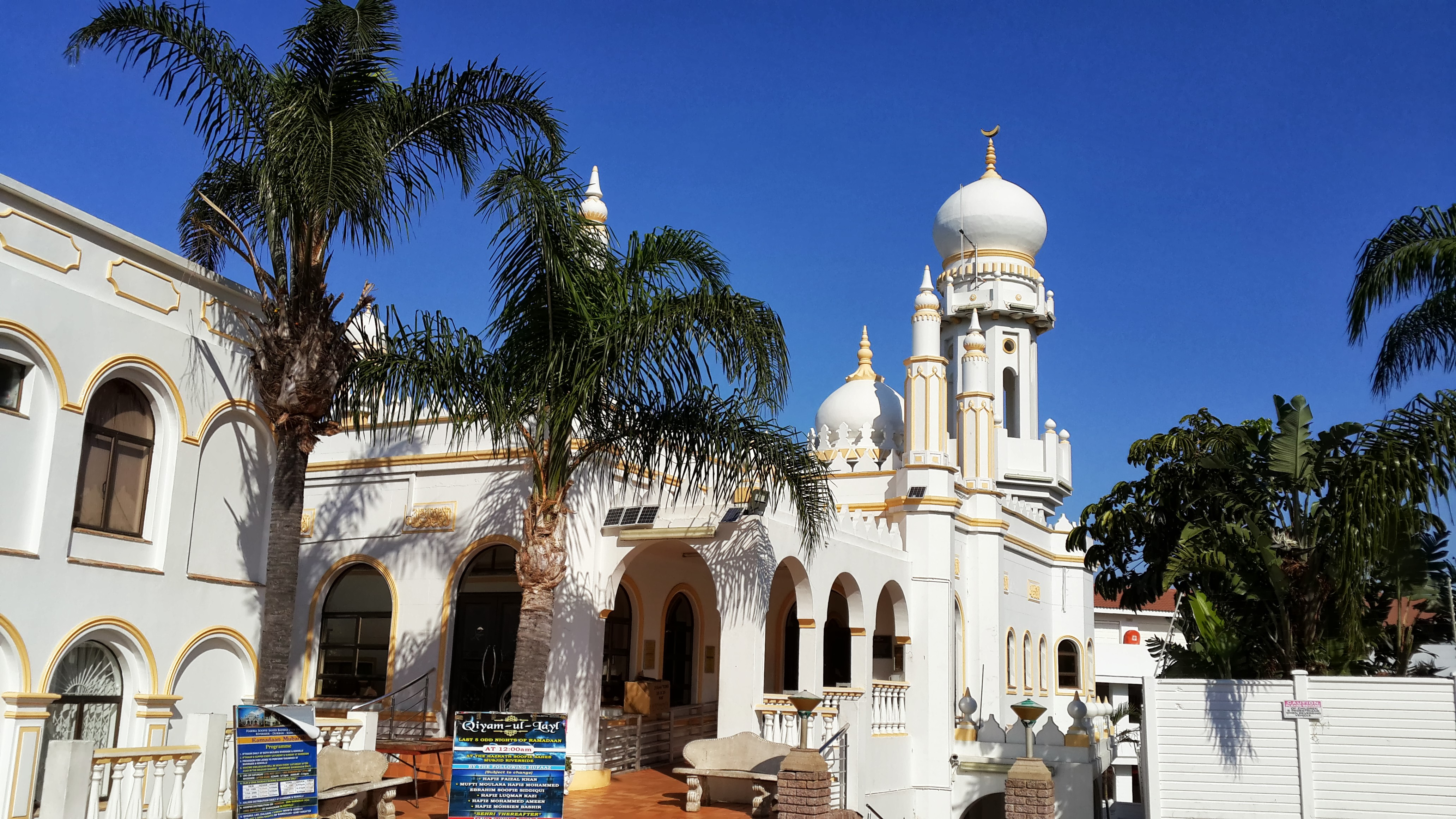 Riverside Soofie Mosque and Mausoleum, 50 Lower Bridge Road, Durban This media shows a South African Protected Site with SAHRA file reference 9/2/407/0049.